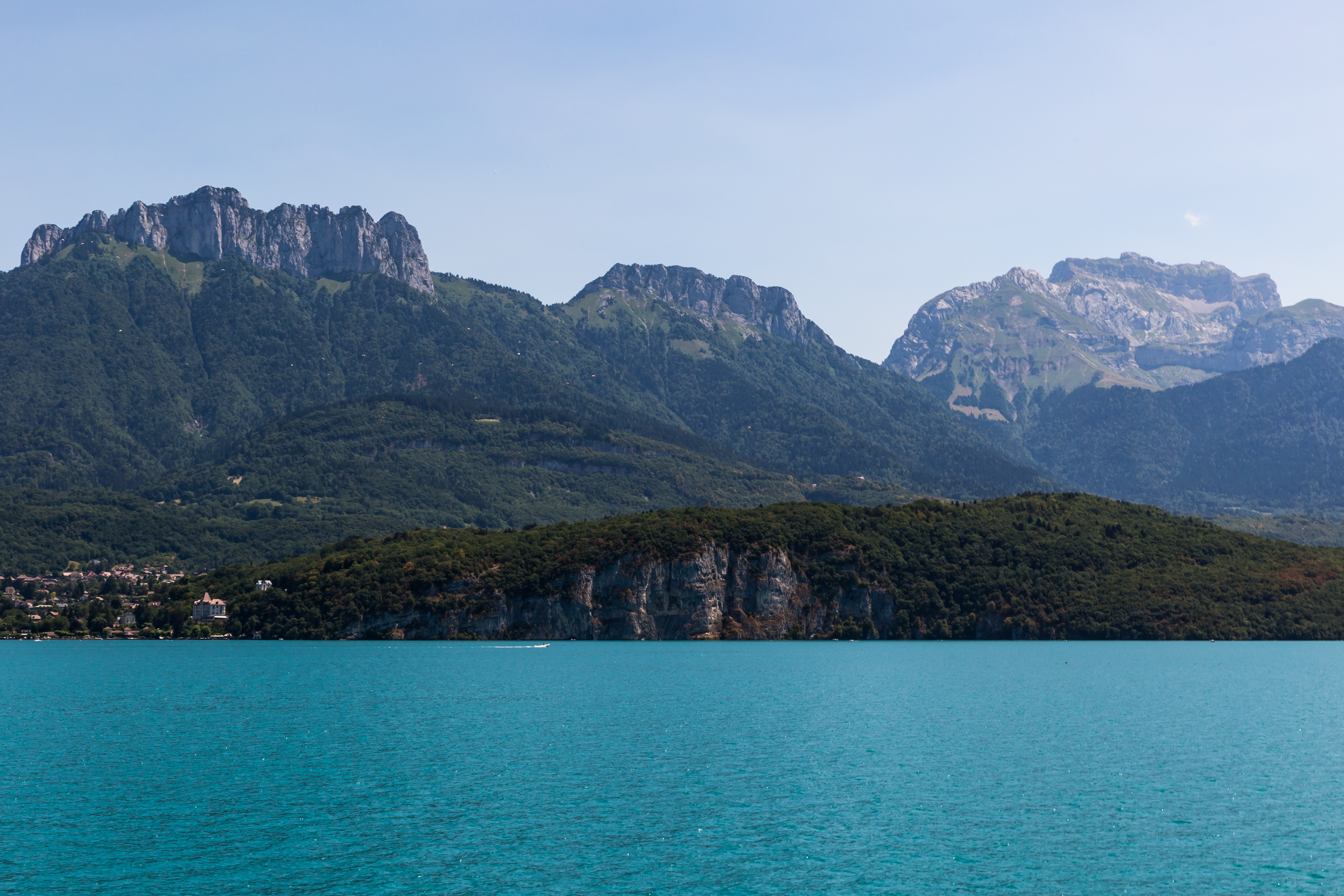 West slope of the Bornes Massif from a boat on Lake Annecy in Sévrier, France. From left to right, the Dents de Lanfon the Lanfonnet and the Tournette.